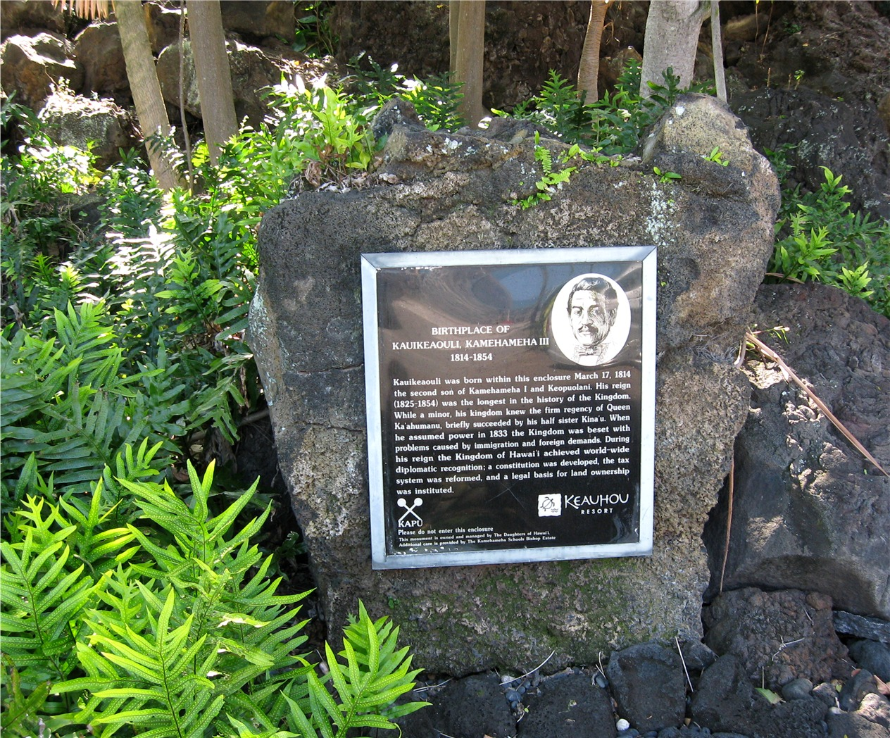 The future King Kamehameha III of Hawai'i was born in 1814 on this site at Keauhou Bay in Kona. The second son of Kamehameha I, he ruled from 1825-1854, the longest in the Kingdom.